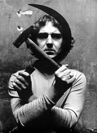 A black and white artistic rendition of the international communist symbol - the hammer (industry) and sickle (farmer)